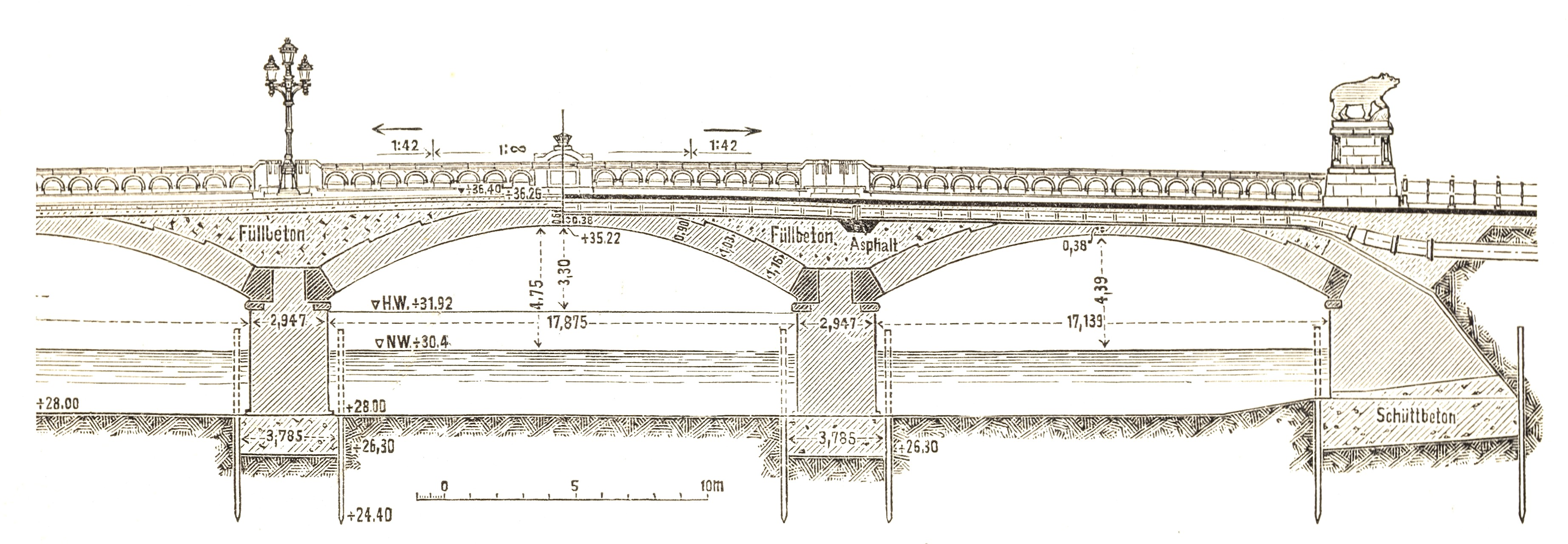 Berlin - Moabiter Brücke, elevation